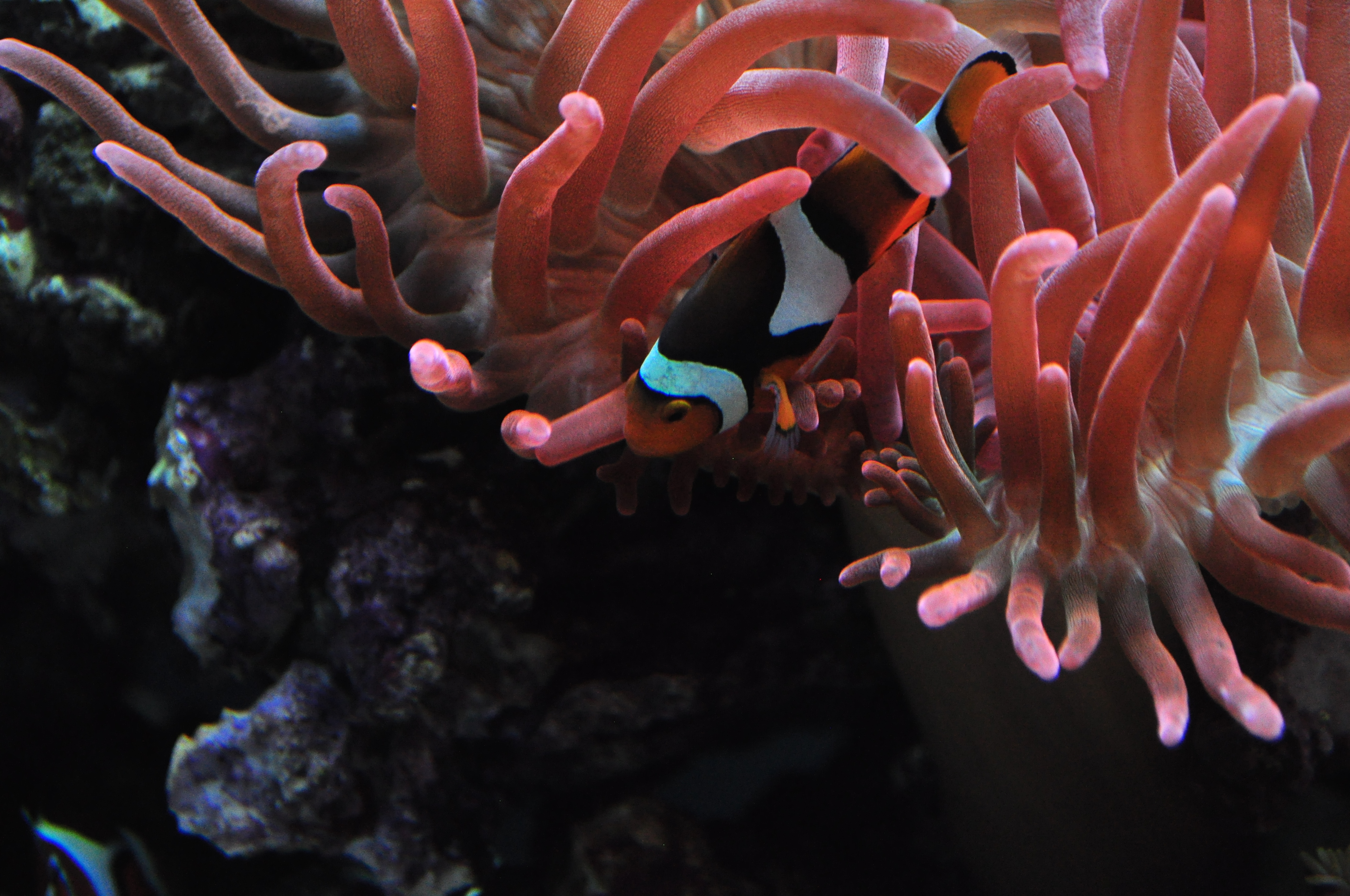 Seattle Aquarium 089 - Tropical Pacific - clownfish and sea anemone